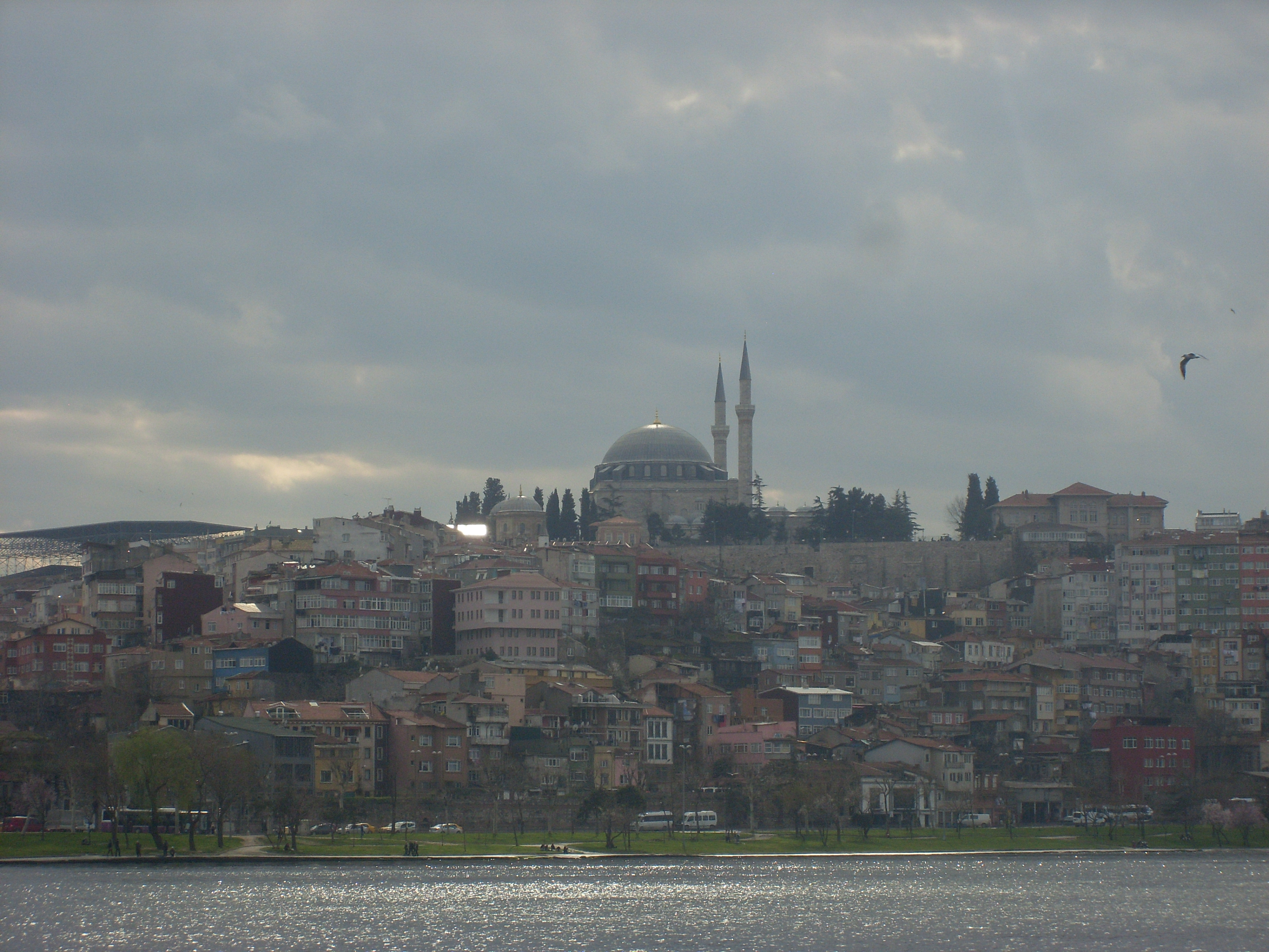 İstanbul - Yavuz Selim Mosque - Mart 2013 - r1